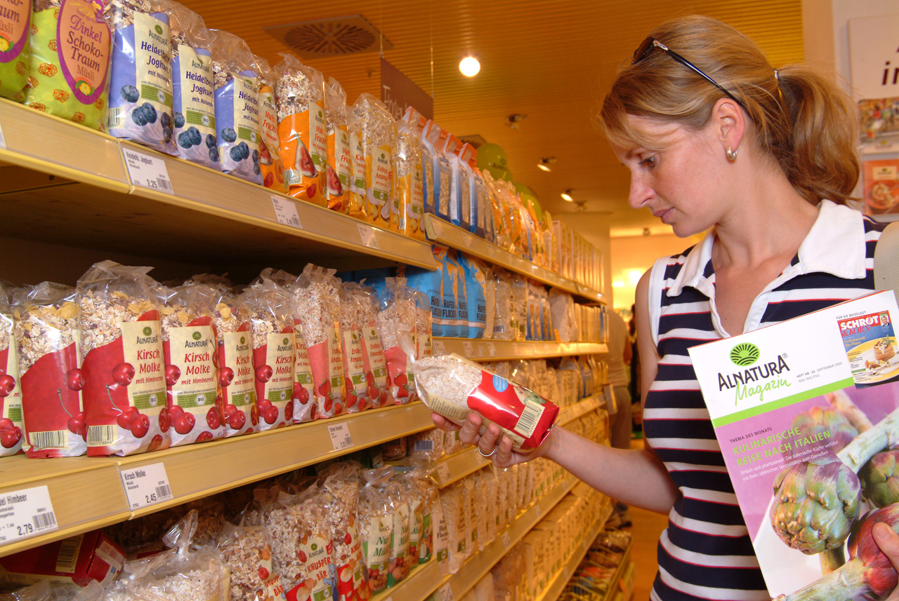 Shelf with cereal products German wholefood retail chain "Alnatura"